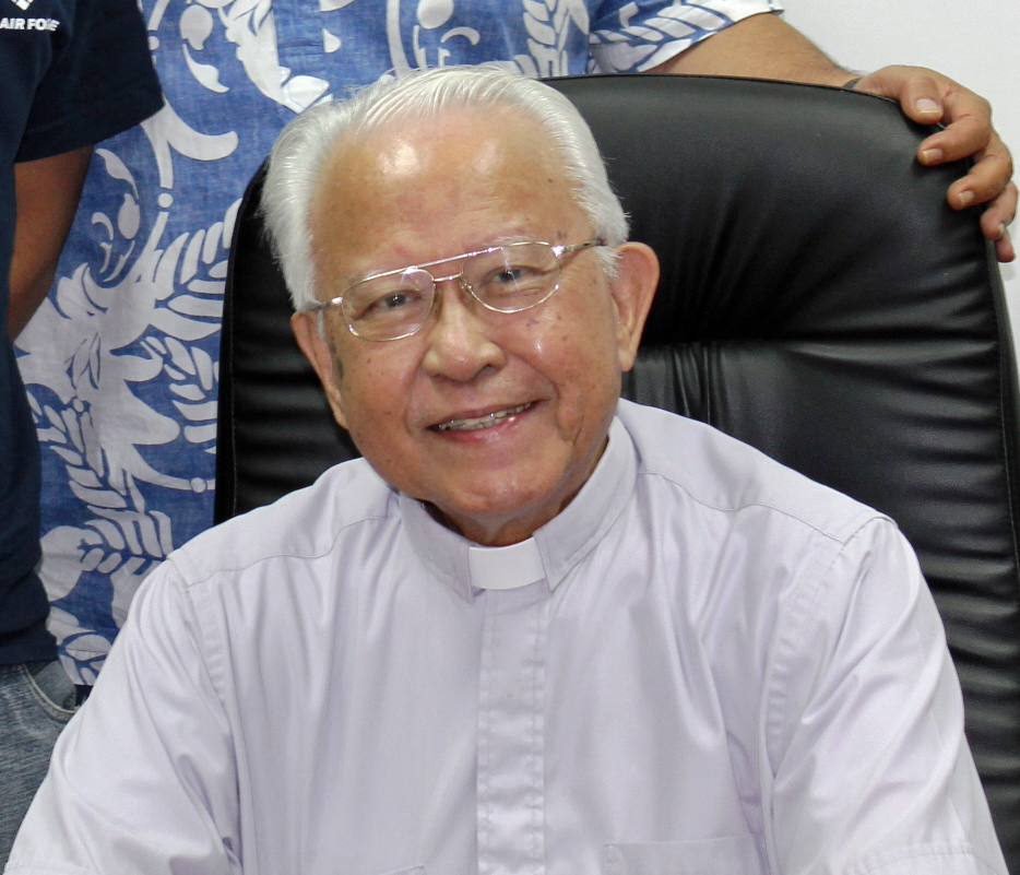 Bishop Emeritus Tomas Aguon Camacho of the Roman Catholic Diocese of Chalan Kanoa visits the office of U.S, Congressman Rep. Gregorio Killi Sablan in 2011.